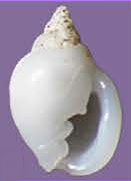 Photo of an apertural view of a shell of Ringicula doliaris.